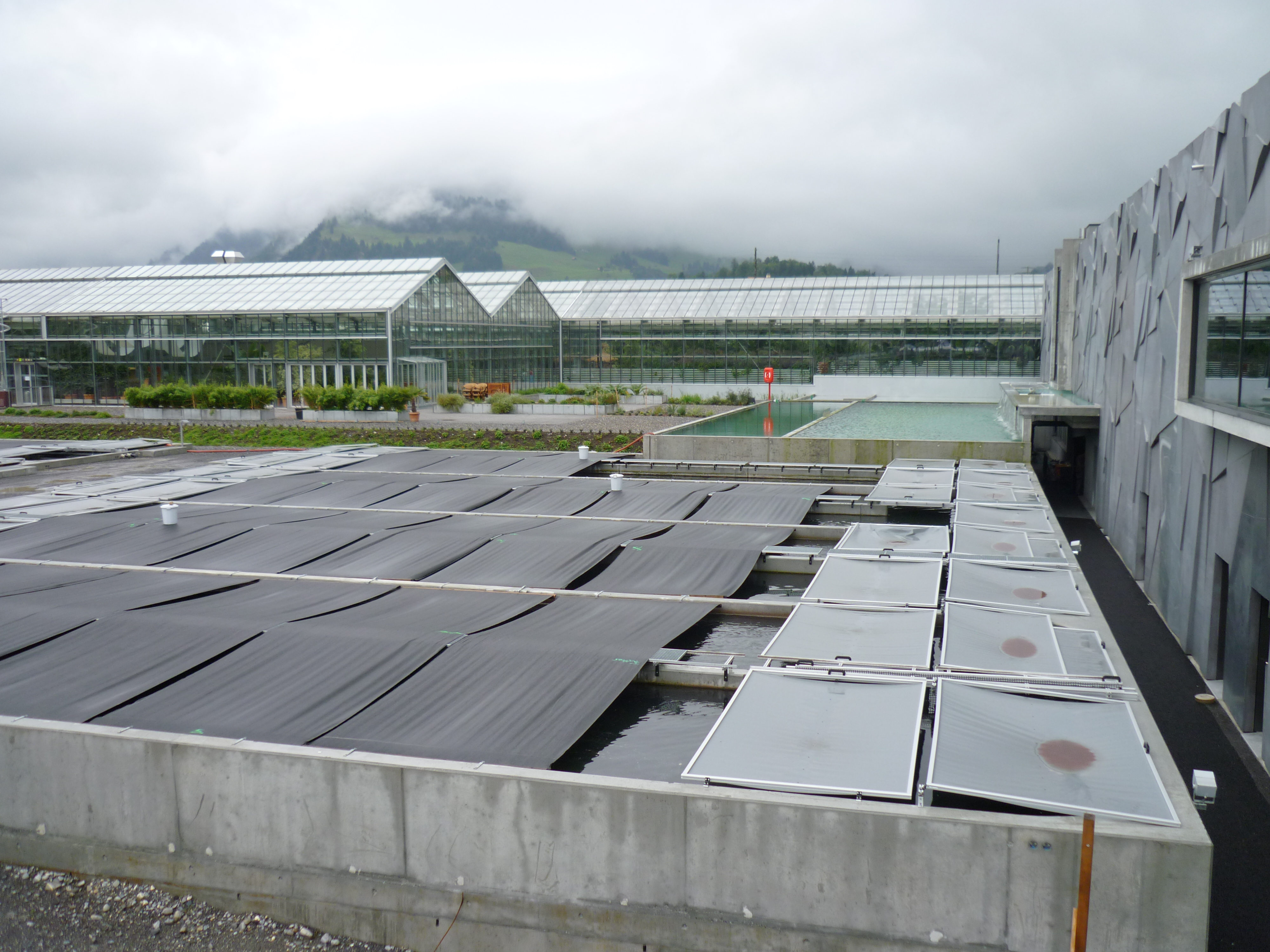 Acipenser breeding station in Frutigen